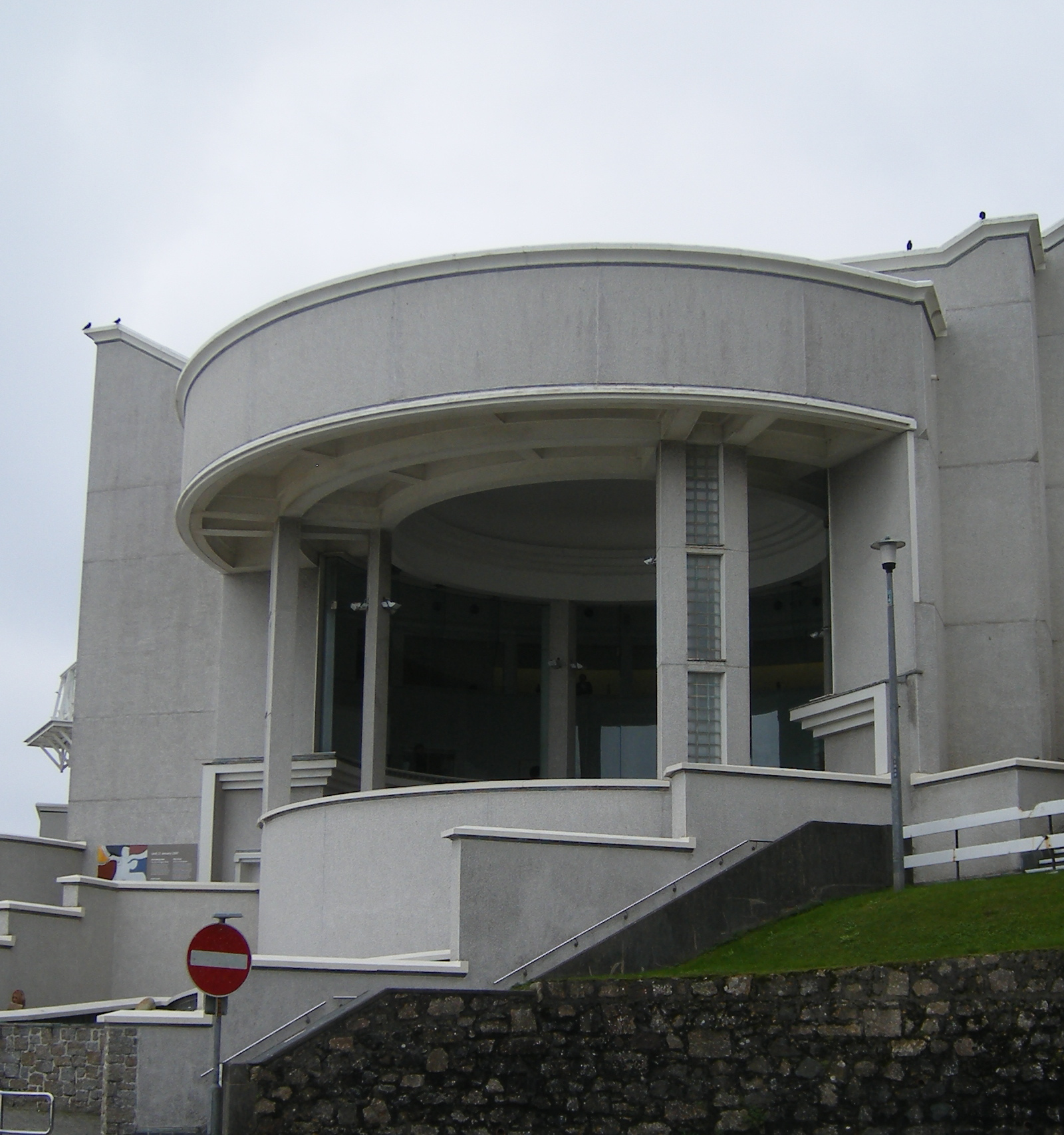 St. Ives Tate external colour photo